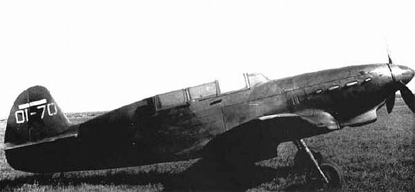 Yakovlev Yak-7V trainer